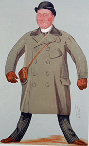 Caricature of Colonel Harry Leslie Blundell McCalmont (1861 – 1902).